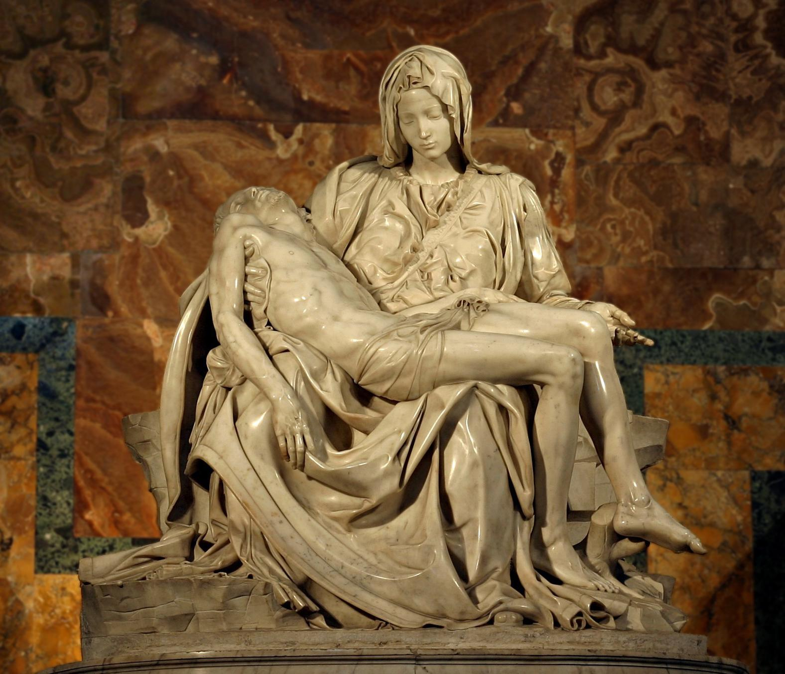 Michelangelo's Pietà in St. Peter's Basilica in the Vatican.